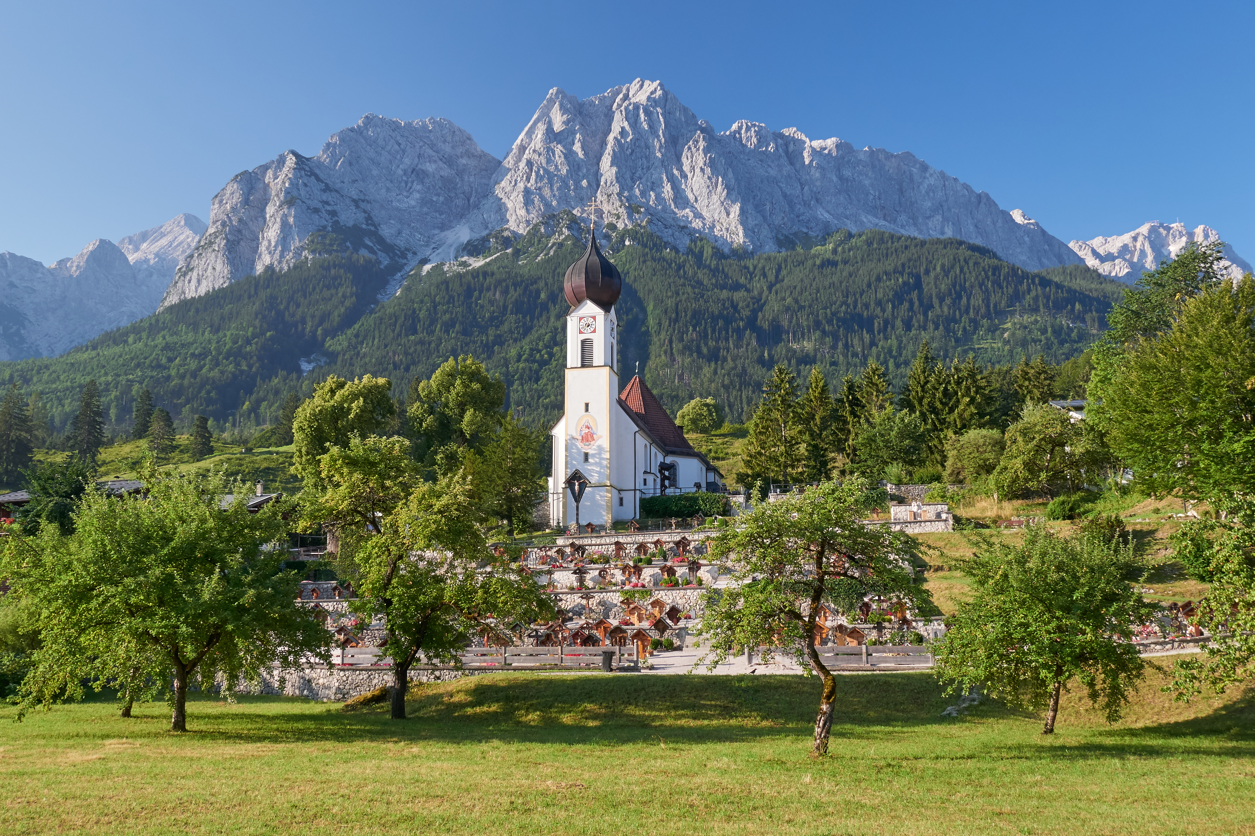 Church "St. Johannes der Täufer" in Obergrainau. View of Alpspitze, Waxenstein, and Zugspitze.